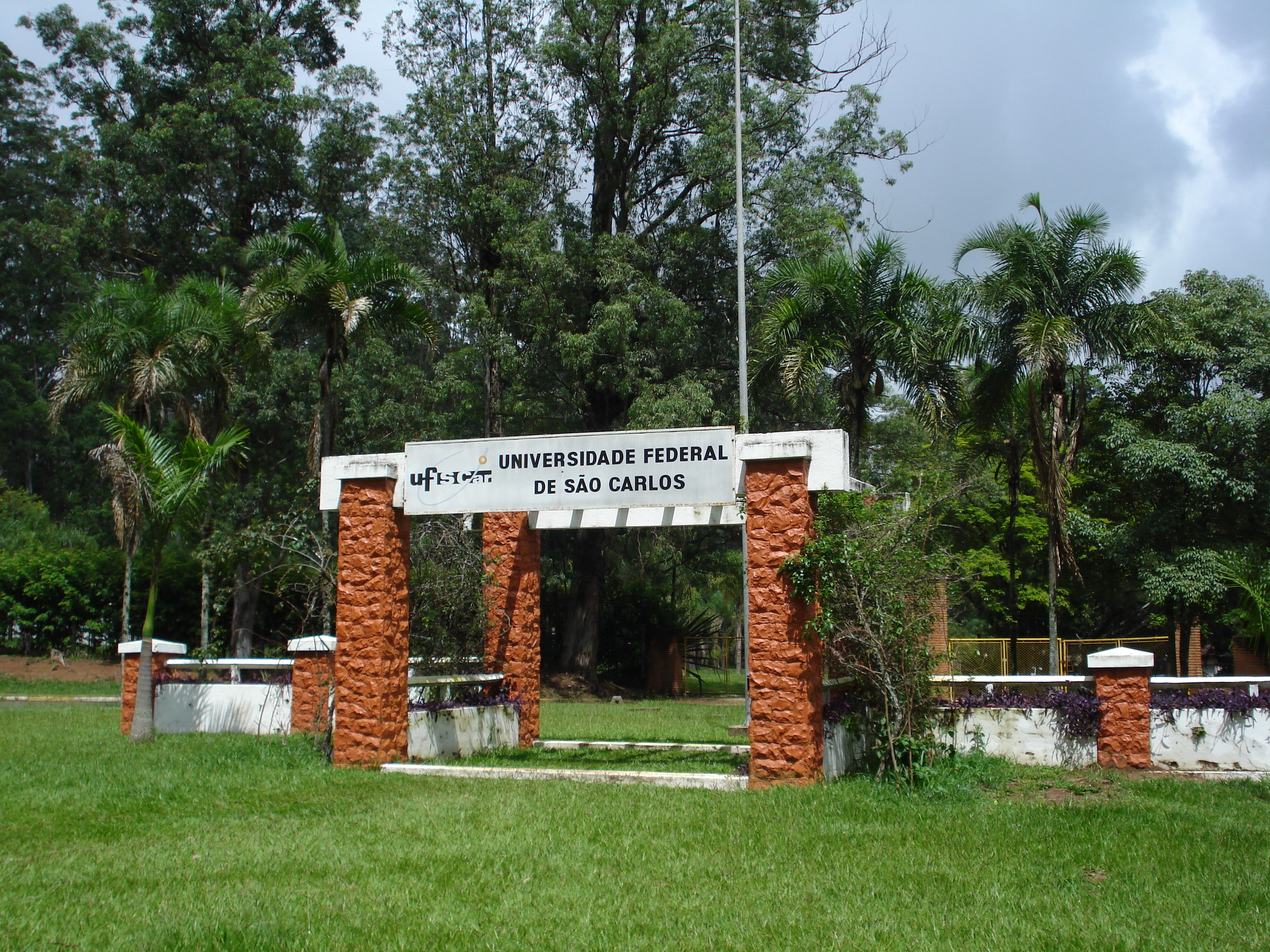 Federal University of São Carlos